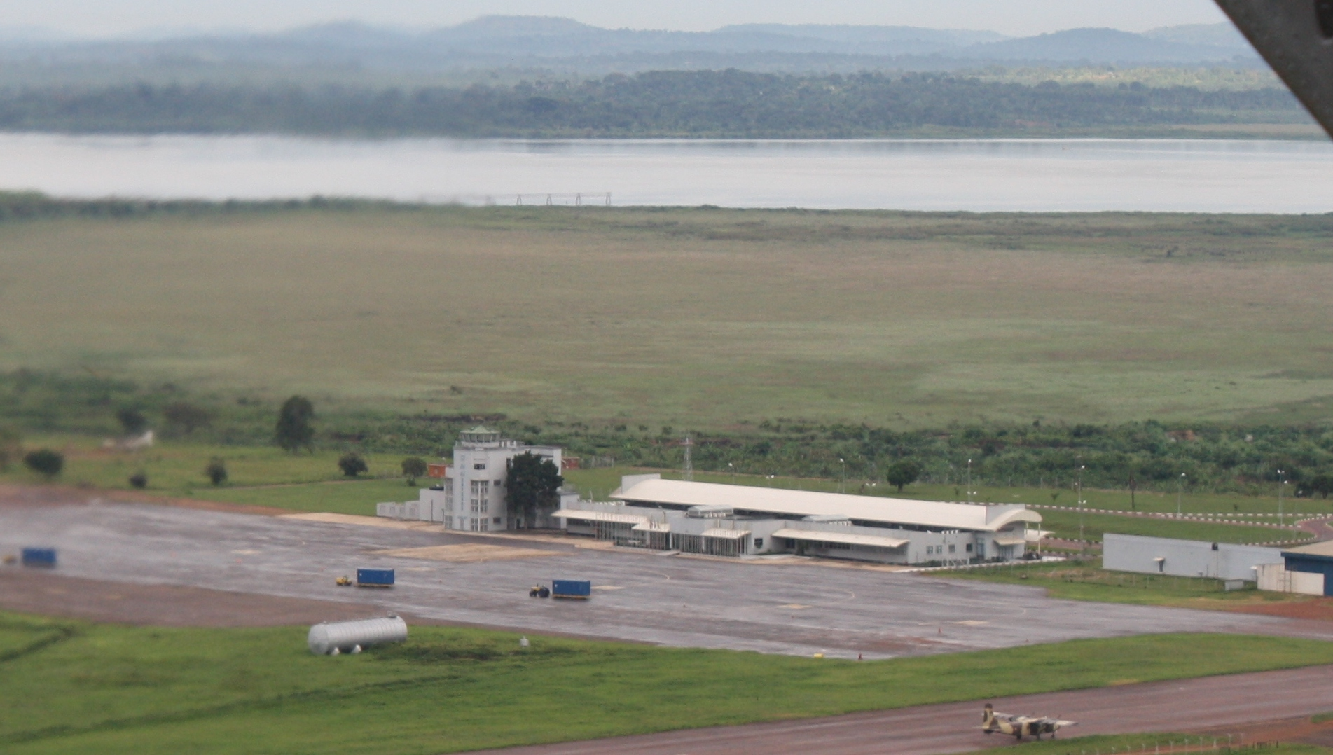 The old terminal building of the Entebbe International Airport. Photo was taken during Natural Fire 10, a multi-national, globally resourced military exercise focused on humanitarian assistance and disaster relief.